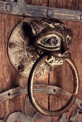 Byzantine lion's head, dated to about 800, in Ytterlännäs Old Church